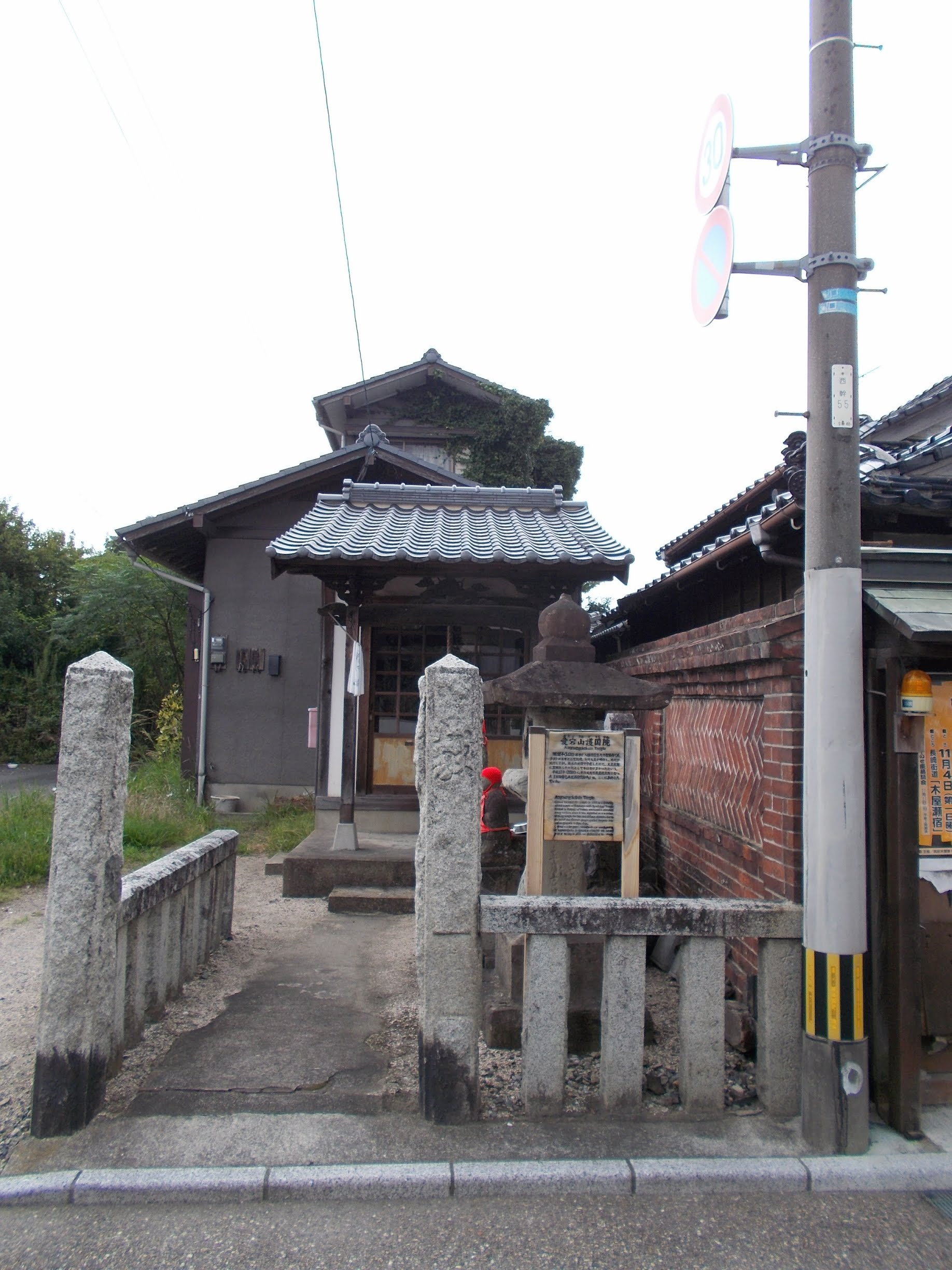 Atagosan Gokoku-in in Koyanose-juku on the Nagasaki Kaido, Yahatanishi-ku, Kitakyushu, Japan.